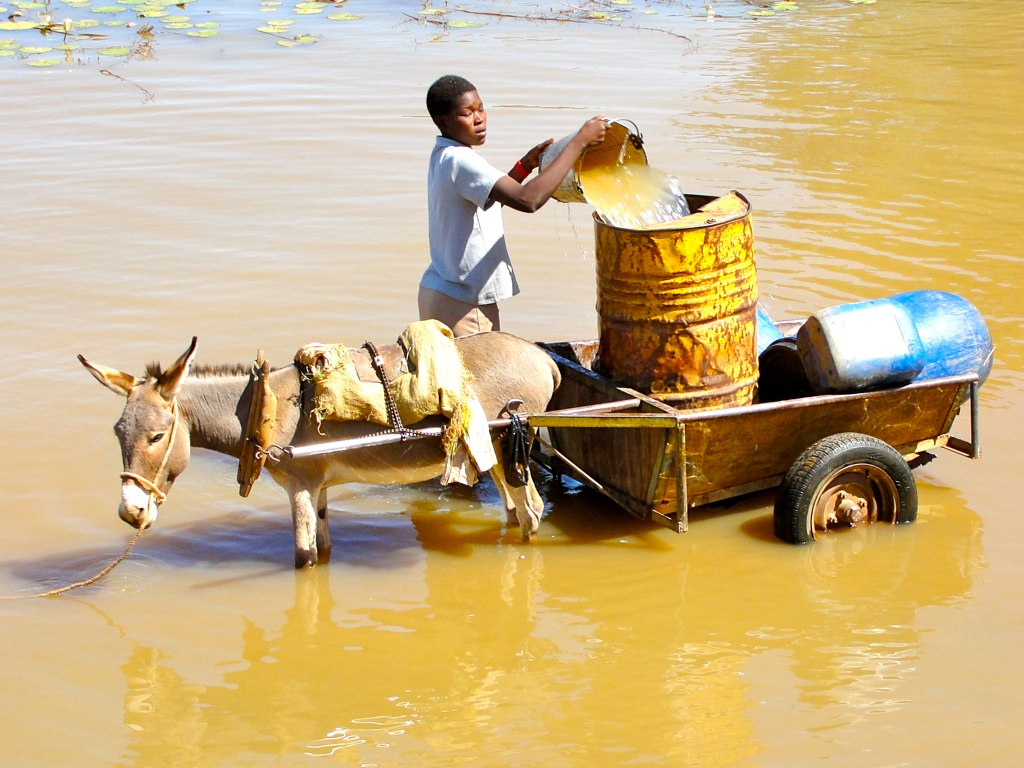 African women always working in Ziniare, Burkina Faso. In black & white and a different crop. "beast of burden"